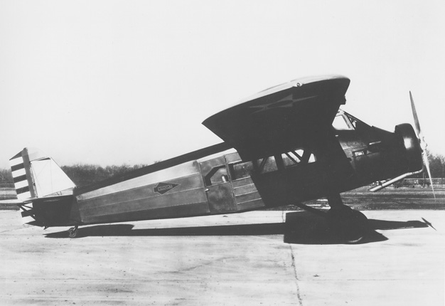 American Y1C-24